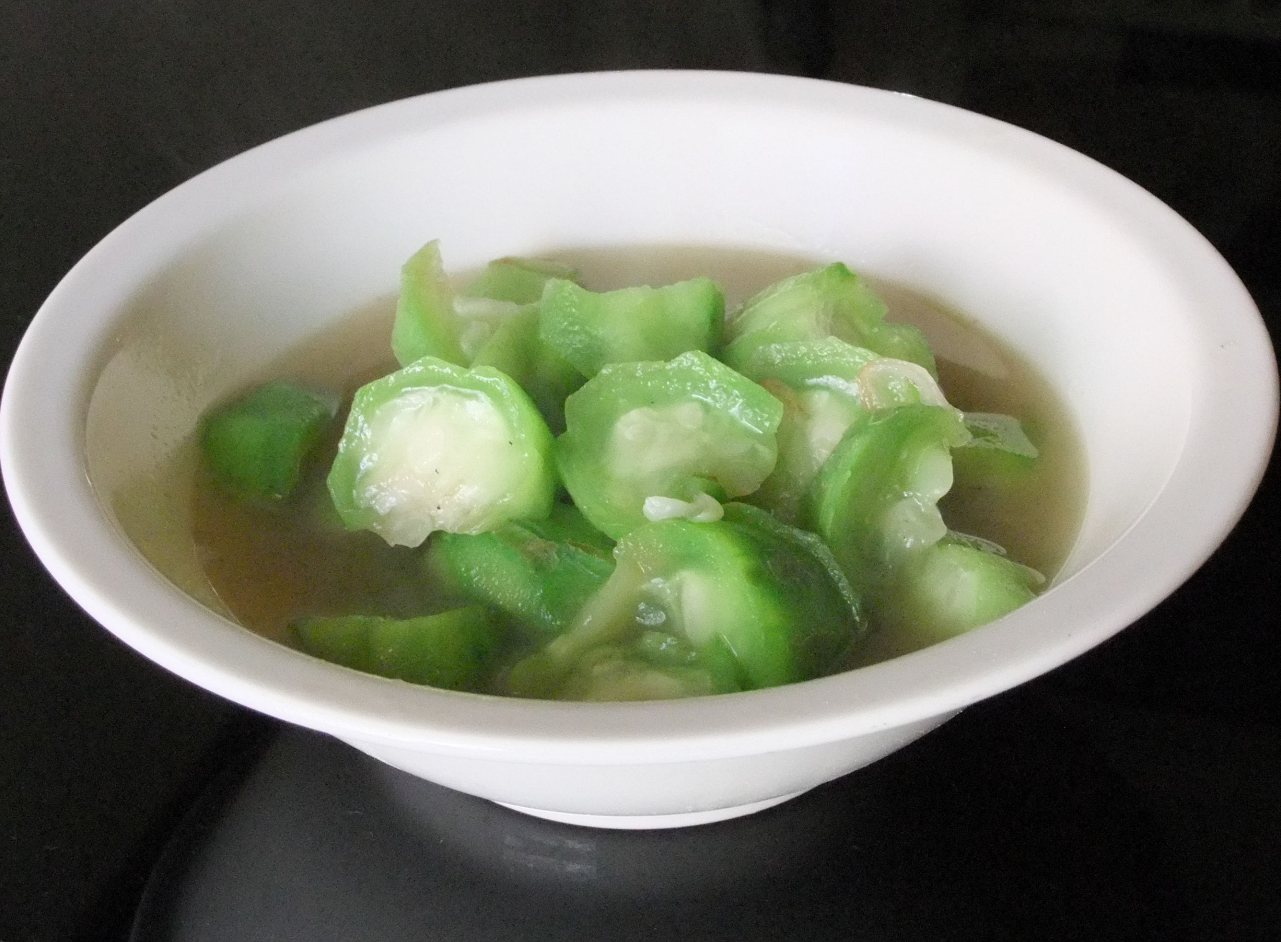 Luffa's fruit stir fry (Luffa acutangula), Indonesia